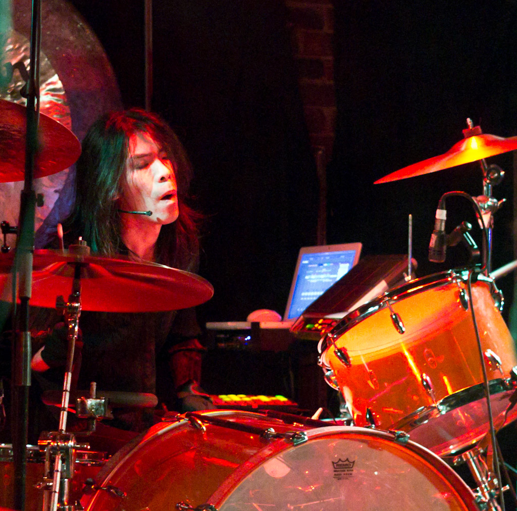 Taken at the Biltmore nightclub in Vancouver in October 2011